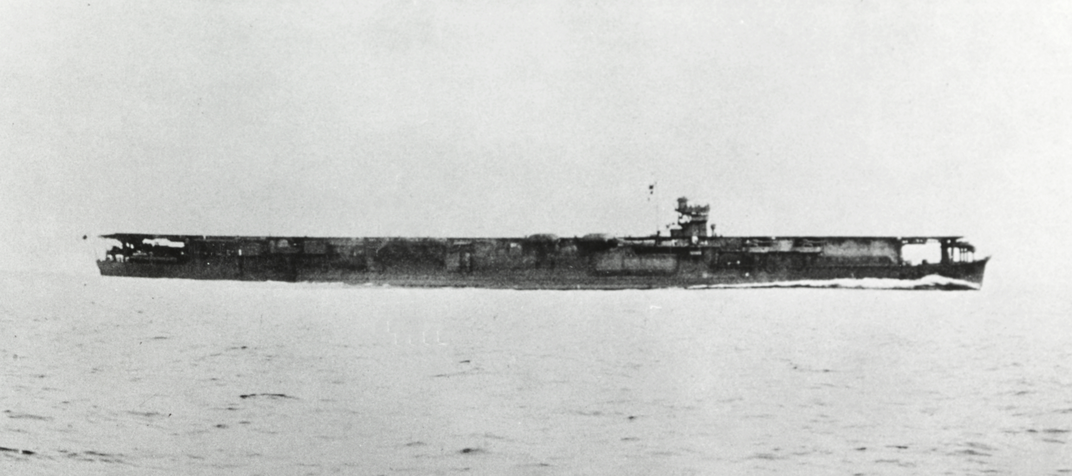 The Japanese aircraft carrier Soryu underway in January 1938.